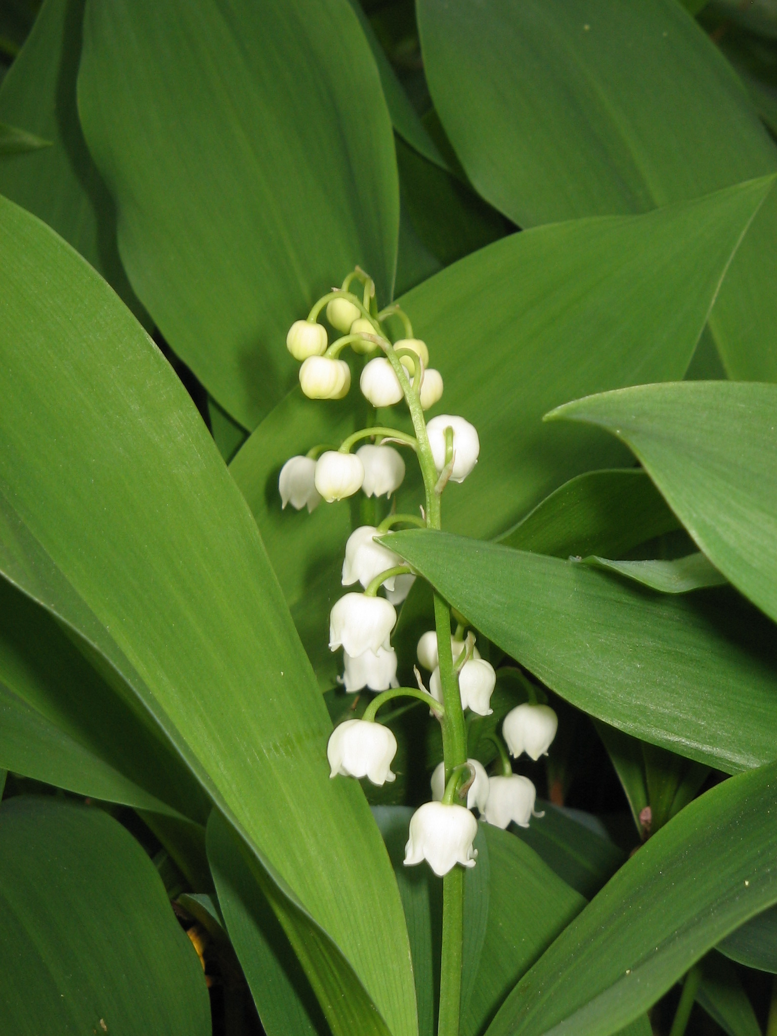 Convallaria majalis